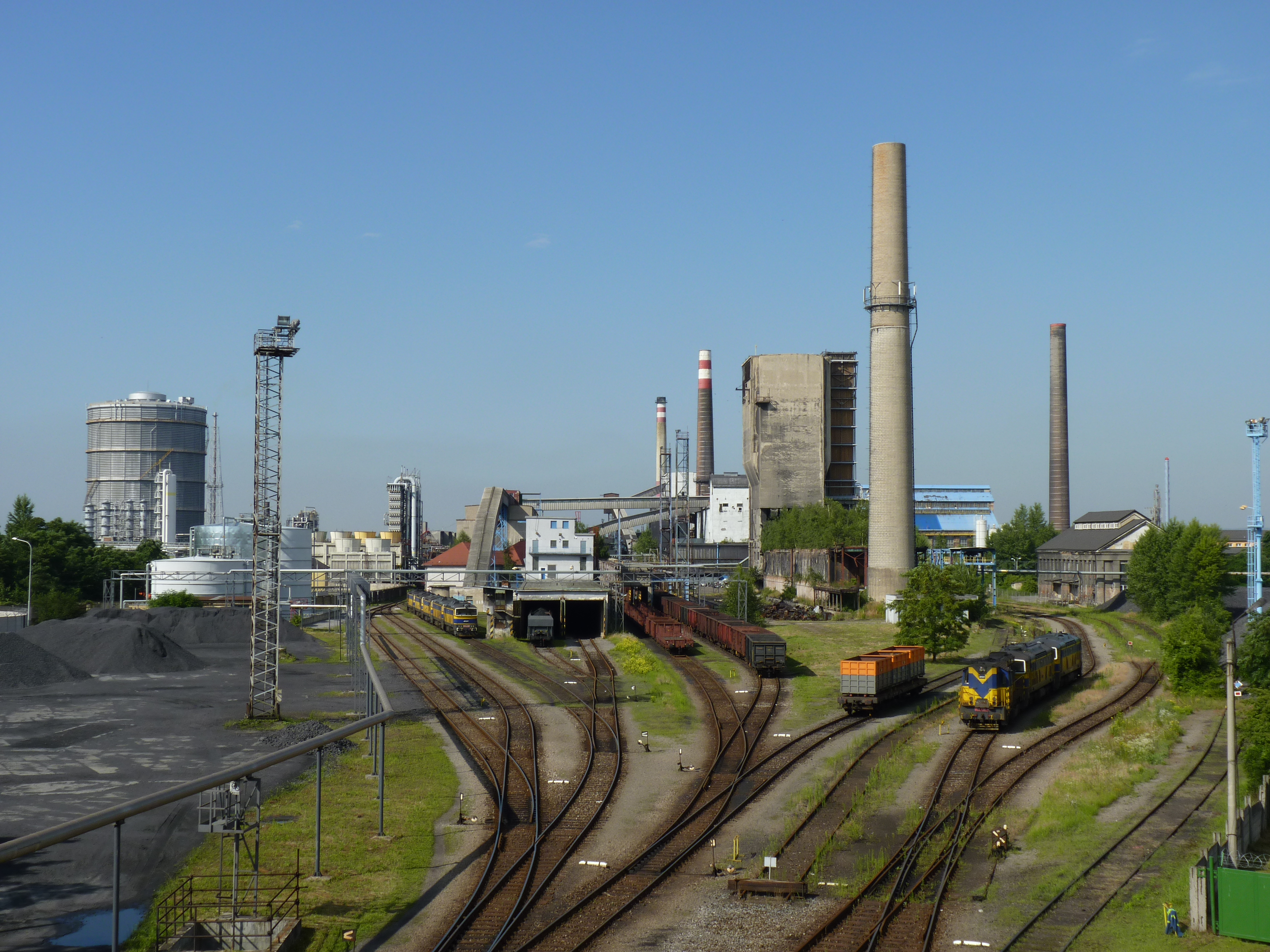 Moravská Ostrava a Přívoz. Ostrava-city District, Moravian-Silesian Region, Czech Republic